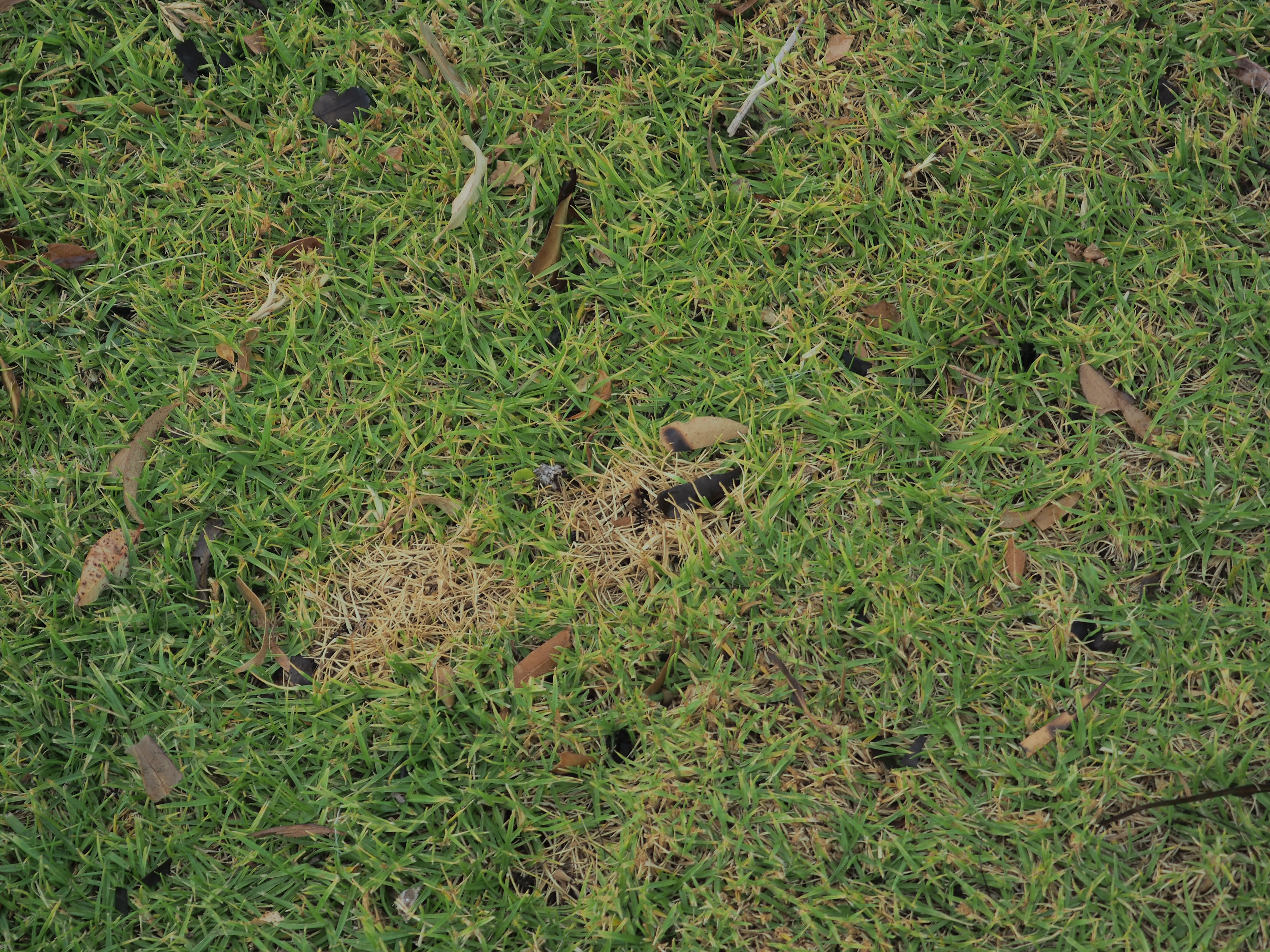 Embers landed on a well irrigated garden. Heat damage from the embers caused grass yellowing. Location: Tathra, NSW